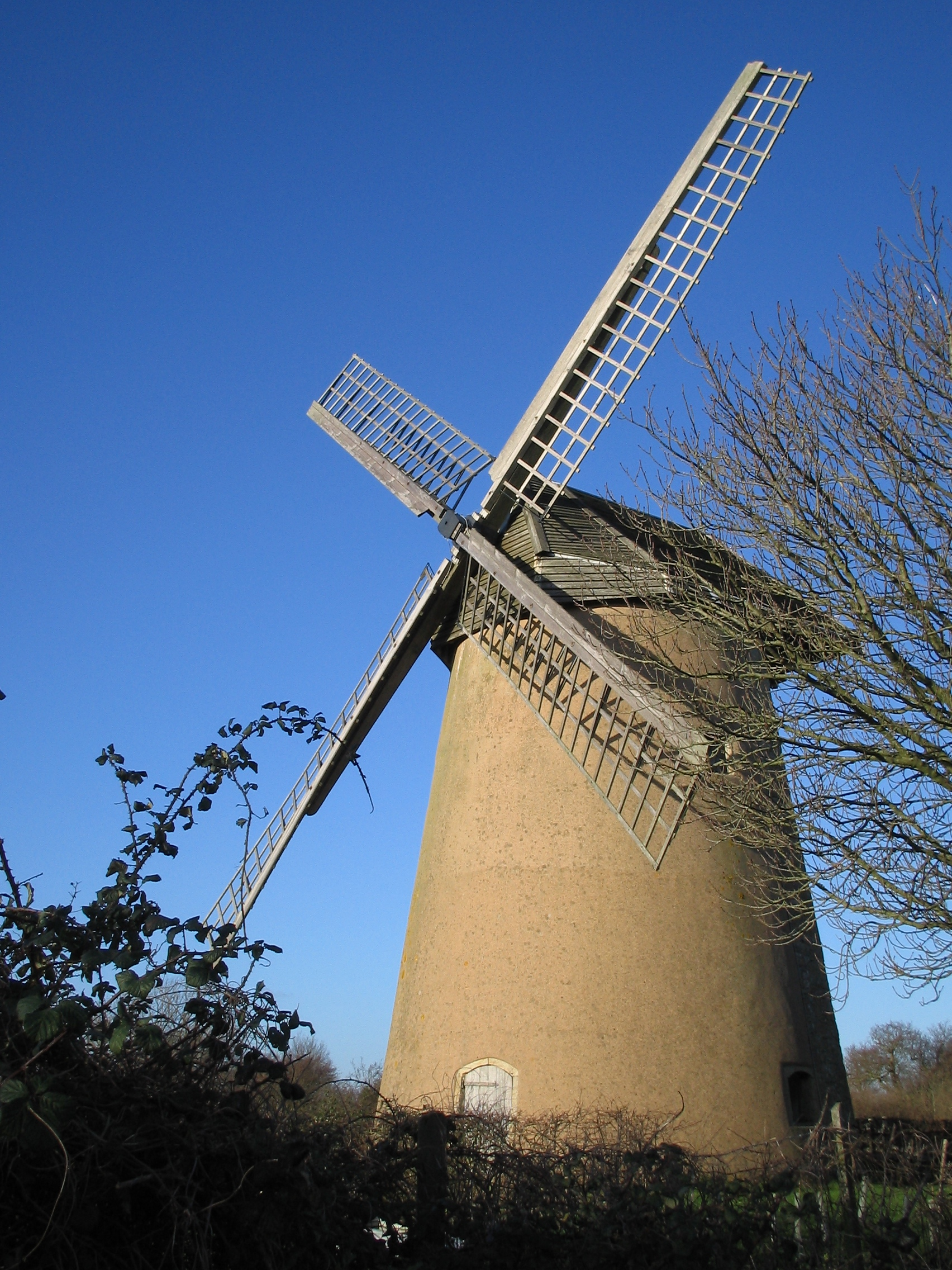 Bembridge Windmill, a National Trust property in the Isle of Wight